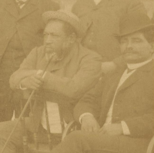 Kaai and Kanoa. Legislature of the Kingdom of Hawaii in 1886.